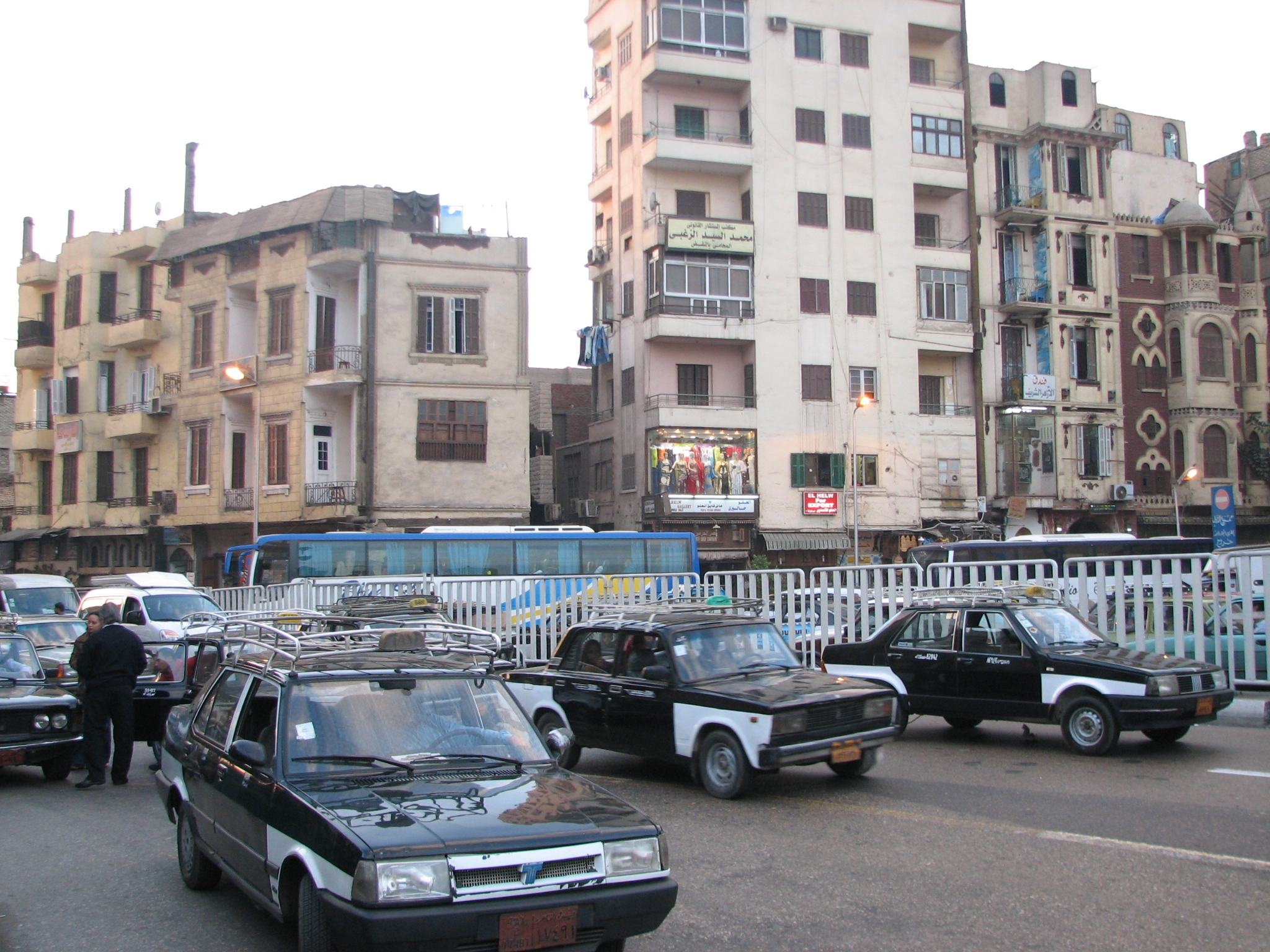 Taxis in Cairo - from the left: Tofaş Şahin, Lada 2105 and Fiat Regata